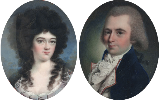 John Pintard and Elizabeth Brasher watercolor on ivory 4.4 x 3.5 cm 1787